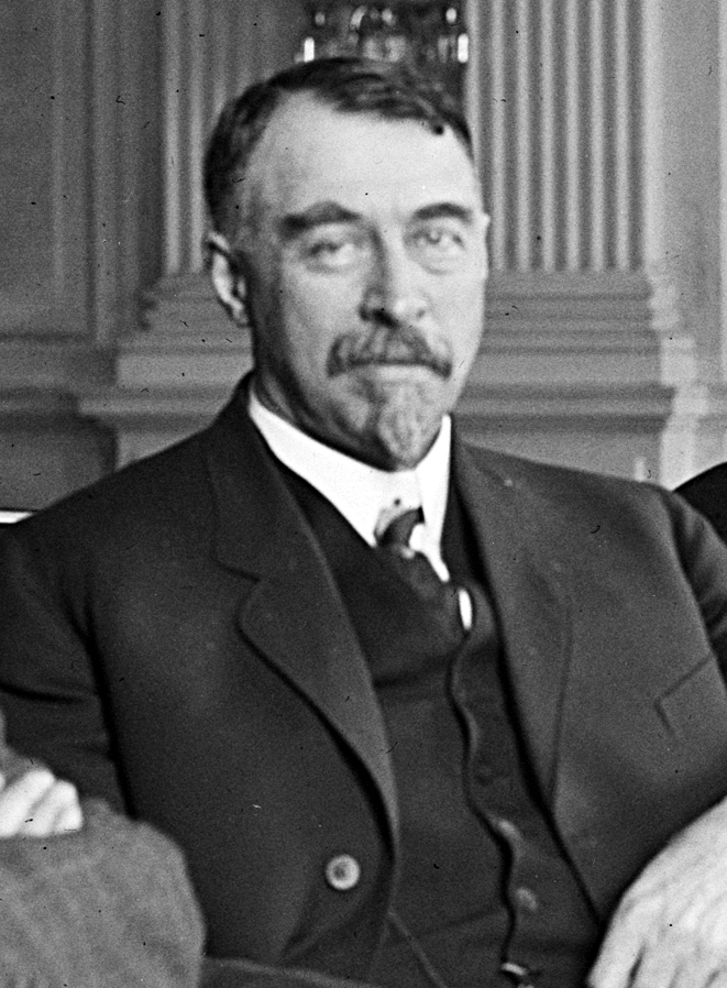 Everis A. Hayes, US Representative from California